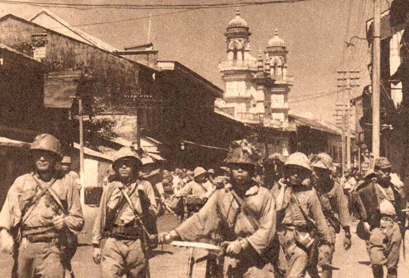 Japanese troops at Singapore